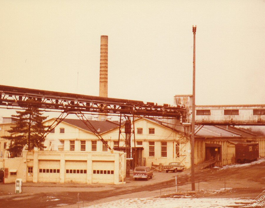 This is a photo of SCM Allied Paper Bryant Mill D during the spring of 1980. Note the irony of a pine tree growing in the middle of a paper mill complex. This mill was demolished in 2004.